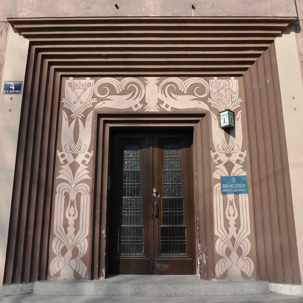 The Professors House built in 1924-1928 at Inwalidów Square in Kraków.